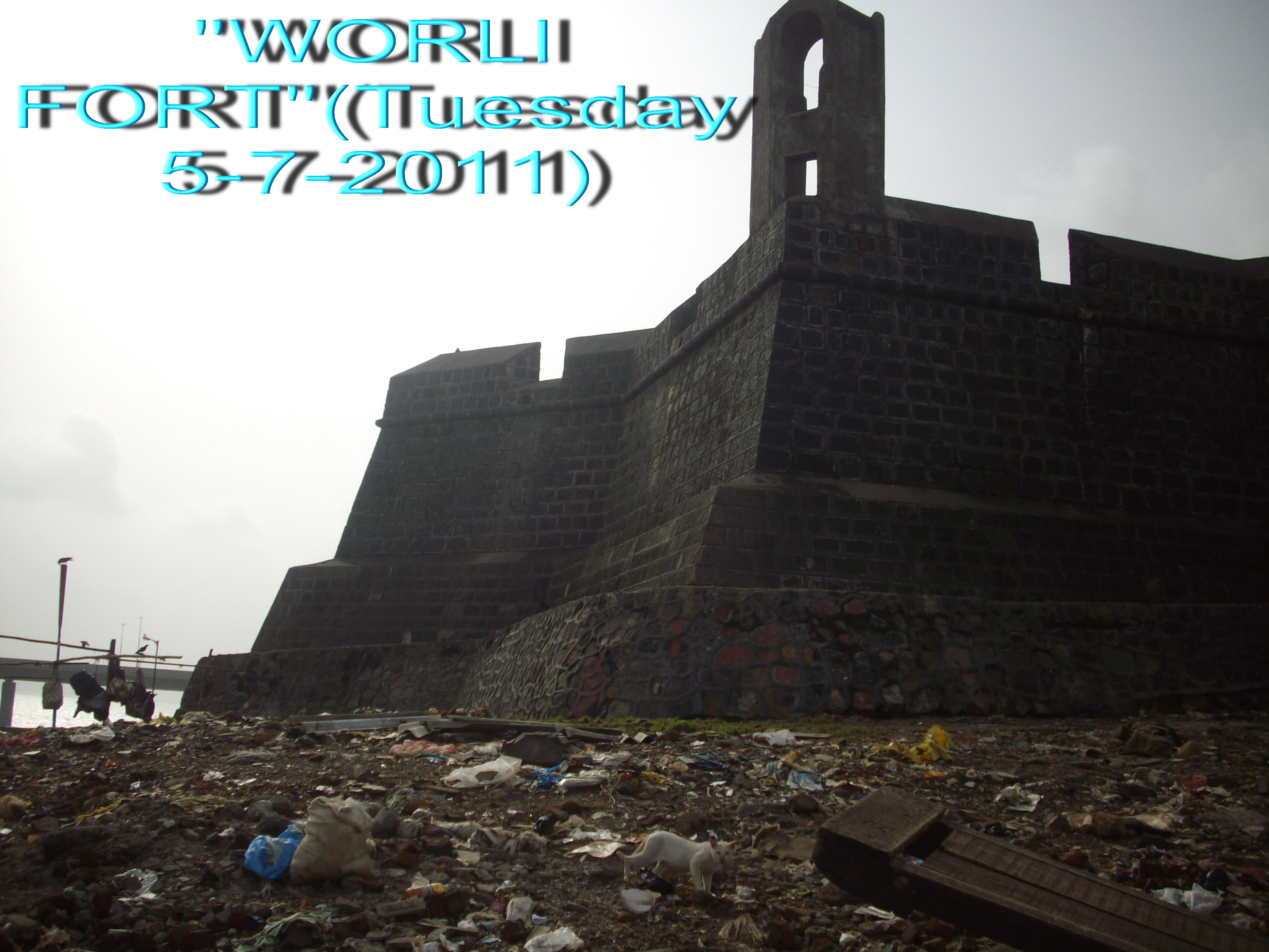 The external edifice of the renovated "Worli Fort" in Mumbai.